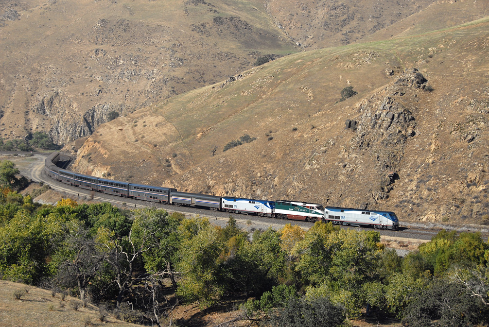 The Coast Starlight approaches Caliente, California as it detours over the Tehachapi Loop.